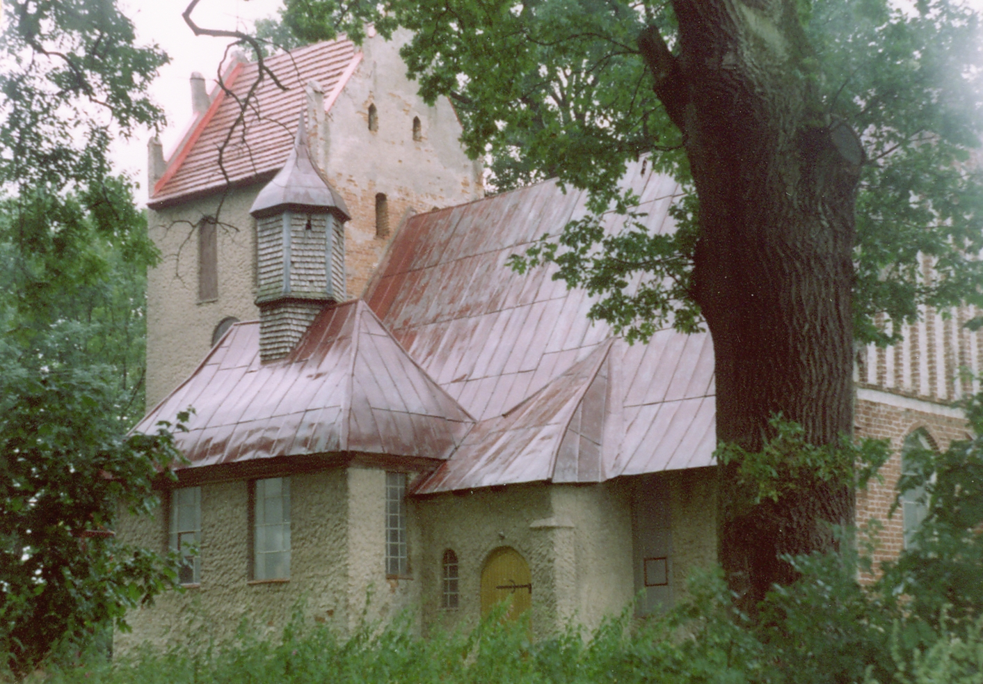 Pieszcz - Exaltation of the Holy Cross church